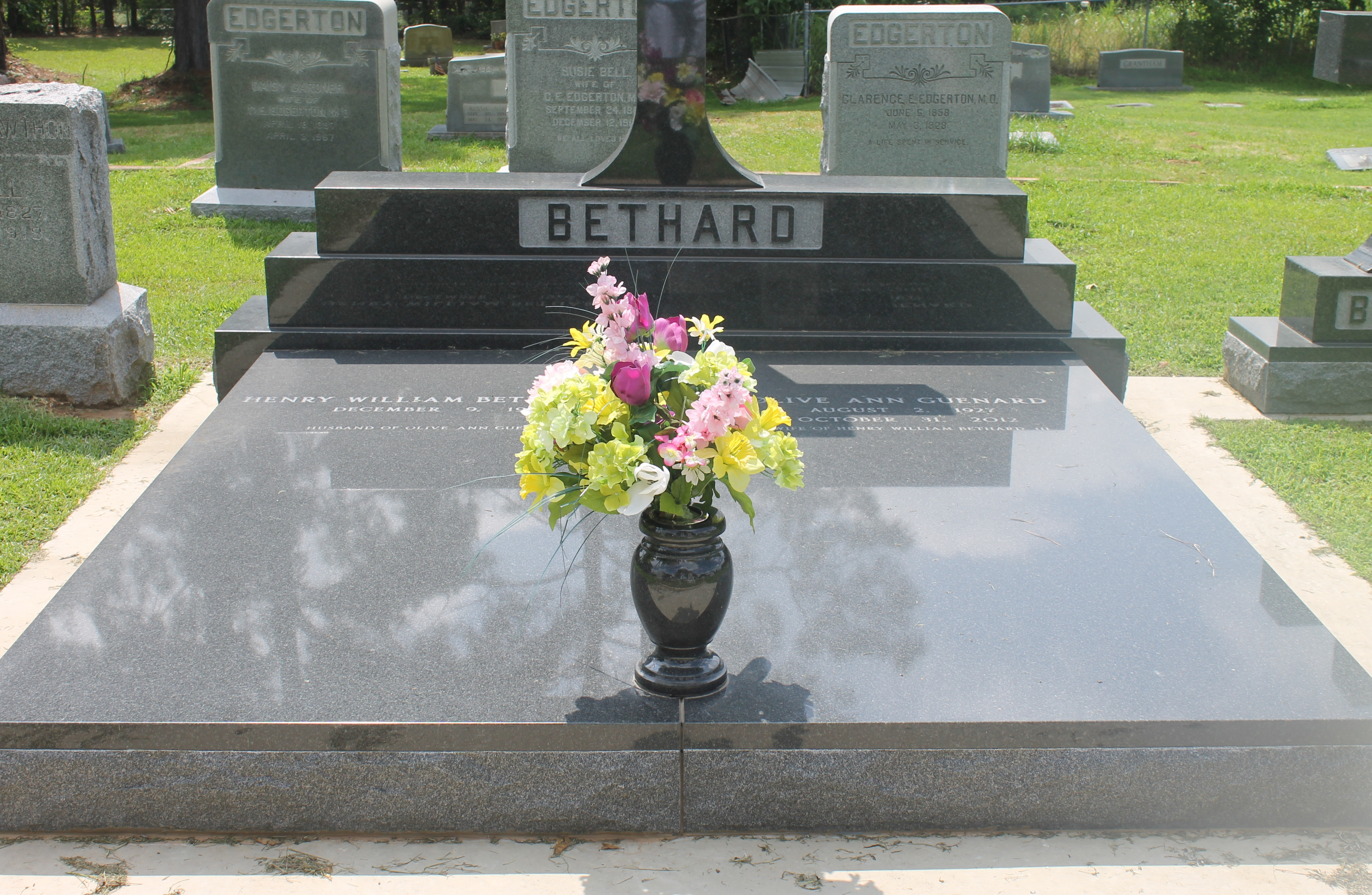 Henry and Olive Bethard grave marker at Springville Cemetery in Coushatta, LA